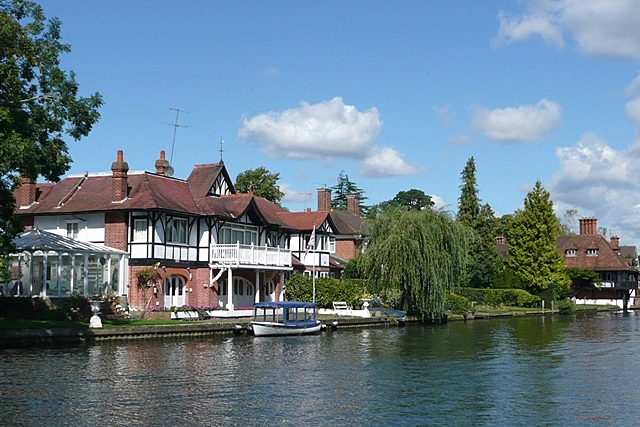 Houses at Shiplake The big houses turn to the west bank of the river as the towpath crossed from the west to the east twice in short distance between Wargrave and Henley. These are accessible from Shiplake, in a separate part of the village called Lashbrook.